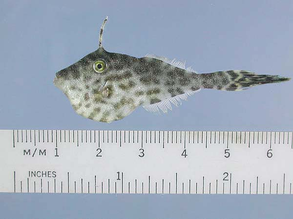 Juvenile scrawled filefish c (Teleostei : Acanthopterygii : Tetraodontiformes : Monacanthidae)